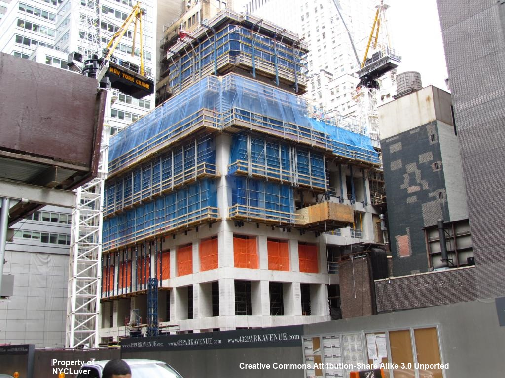 432 Park Avenue residential tower under construction, March 29th, 2013